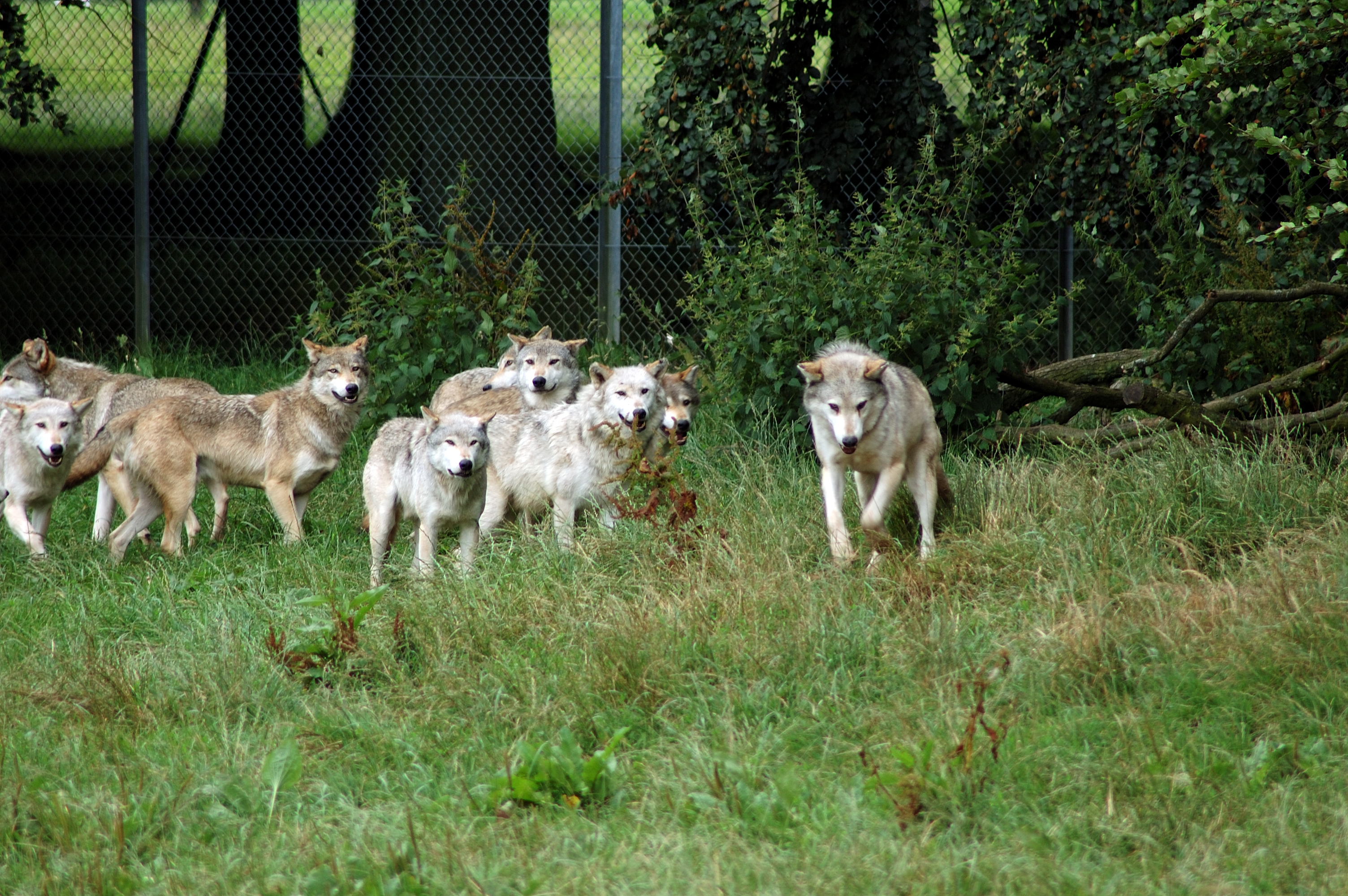 These are the European grey wolves, out and about!